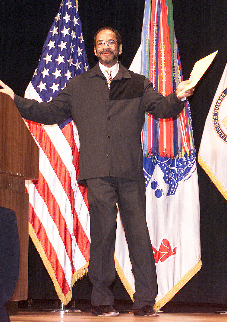 Actor, director and producer Tim Reid relays a humorous anecdote about how his life was changed from at-risk youth to successful businessman and actor after he met Dr. Martin Luther King Jr. Reid was guest speaker at the Pentagon Jan. 11 for the birthday observance of Dr. King.